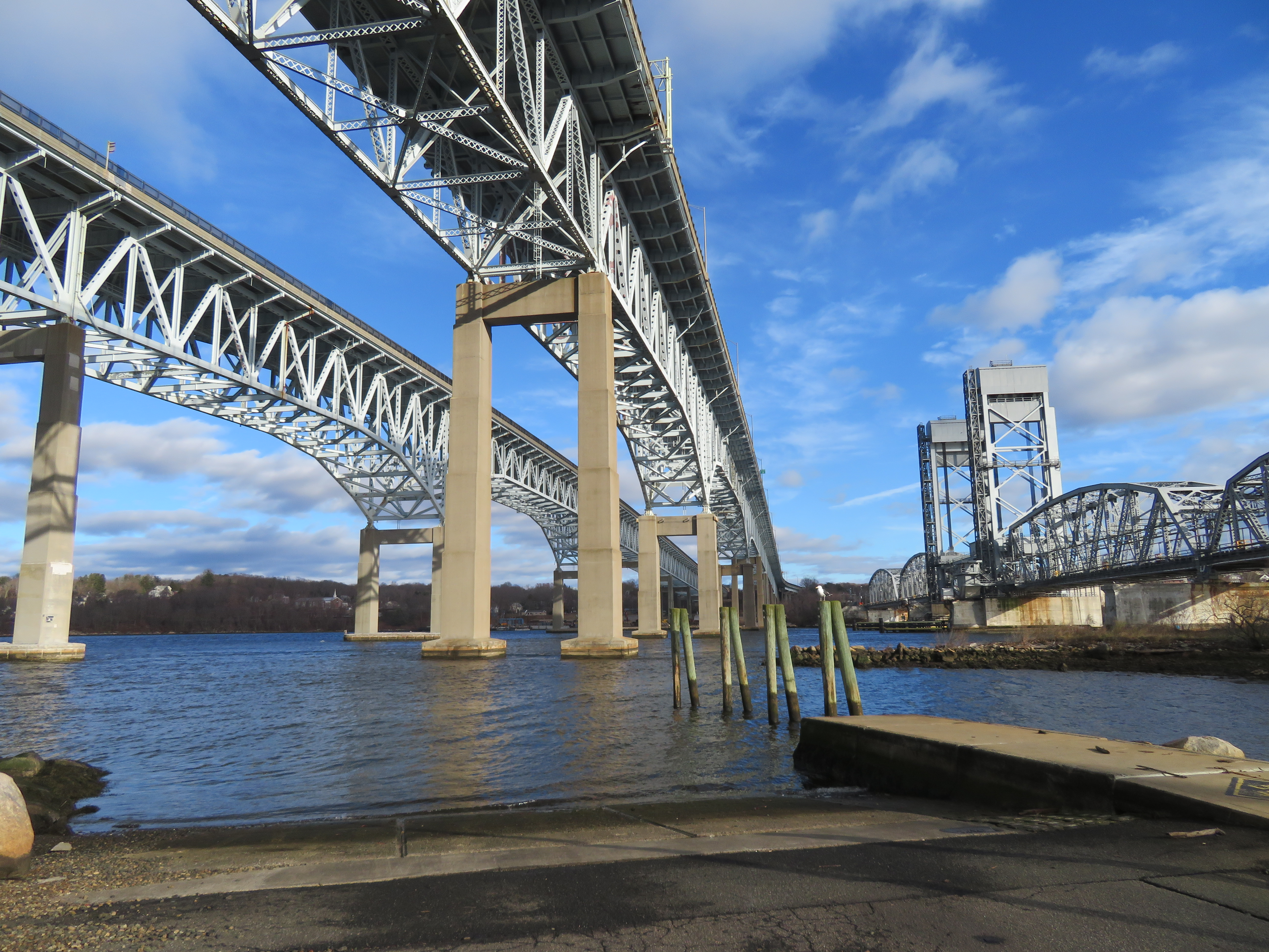 Gold Star Memorial Bridge and the Thames River Bridge from the New London side in December 2018